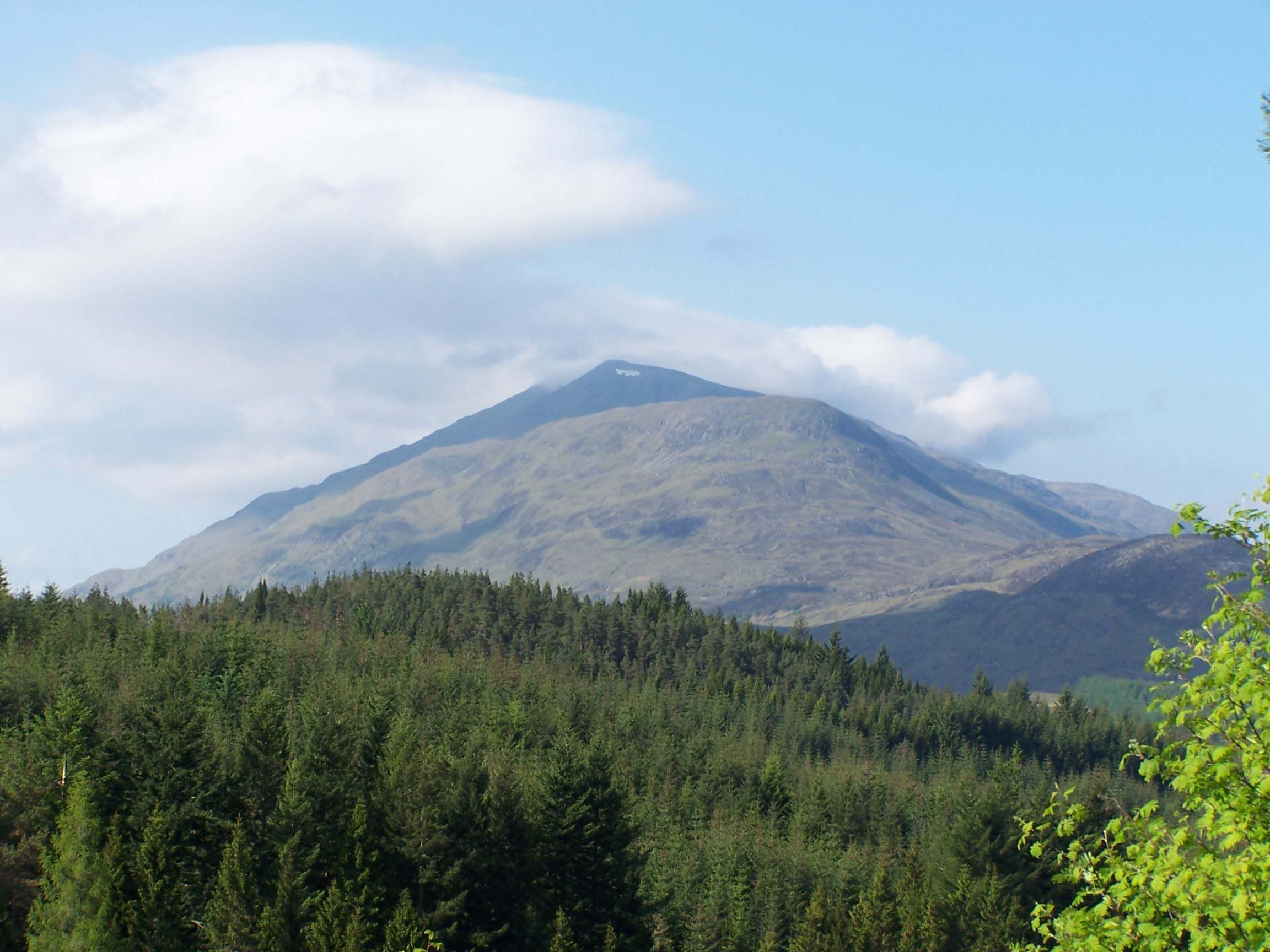 Stob a' Choire Mheadhoin seen from the Laggan Damm